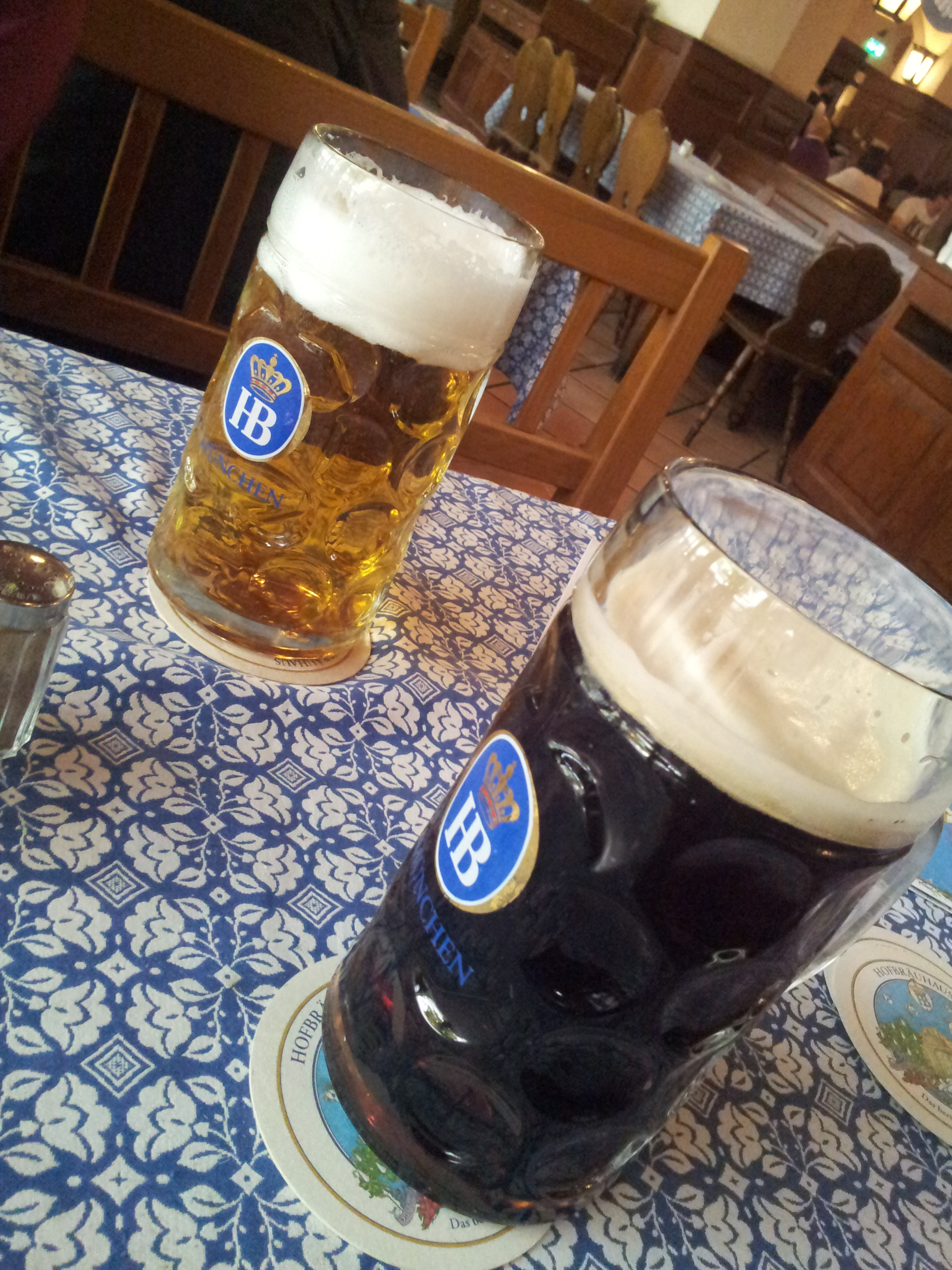 munich Hofbräuhaus beer